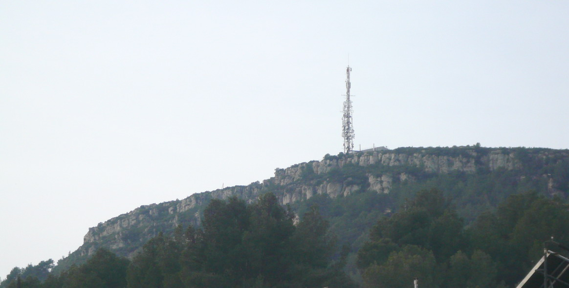 Les Planes as seen from Pallejà (Baix Llobregat, Catalonia).